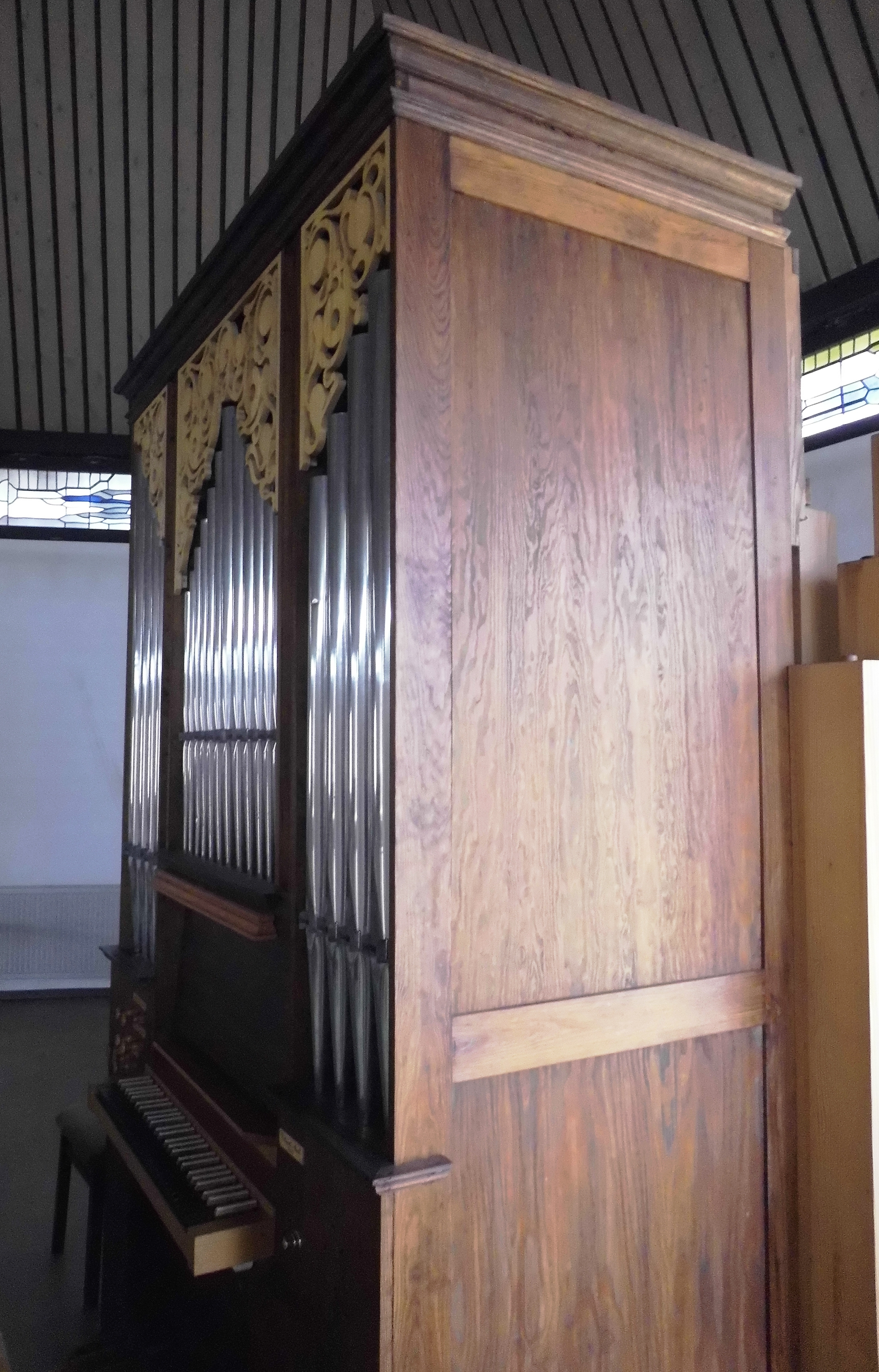 St. Joseph Church in Stade - organ